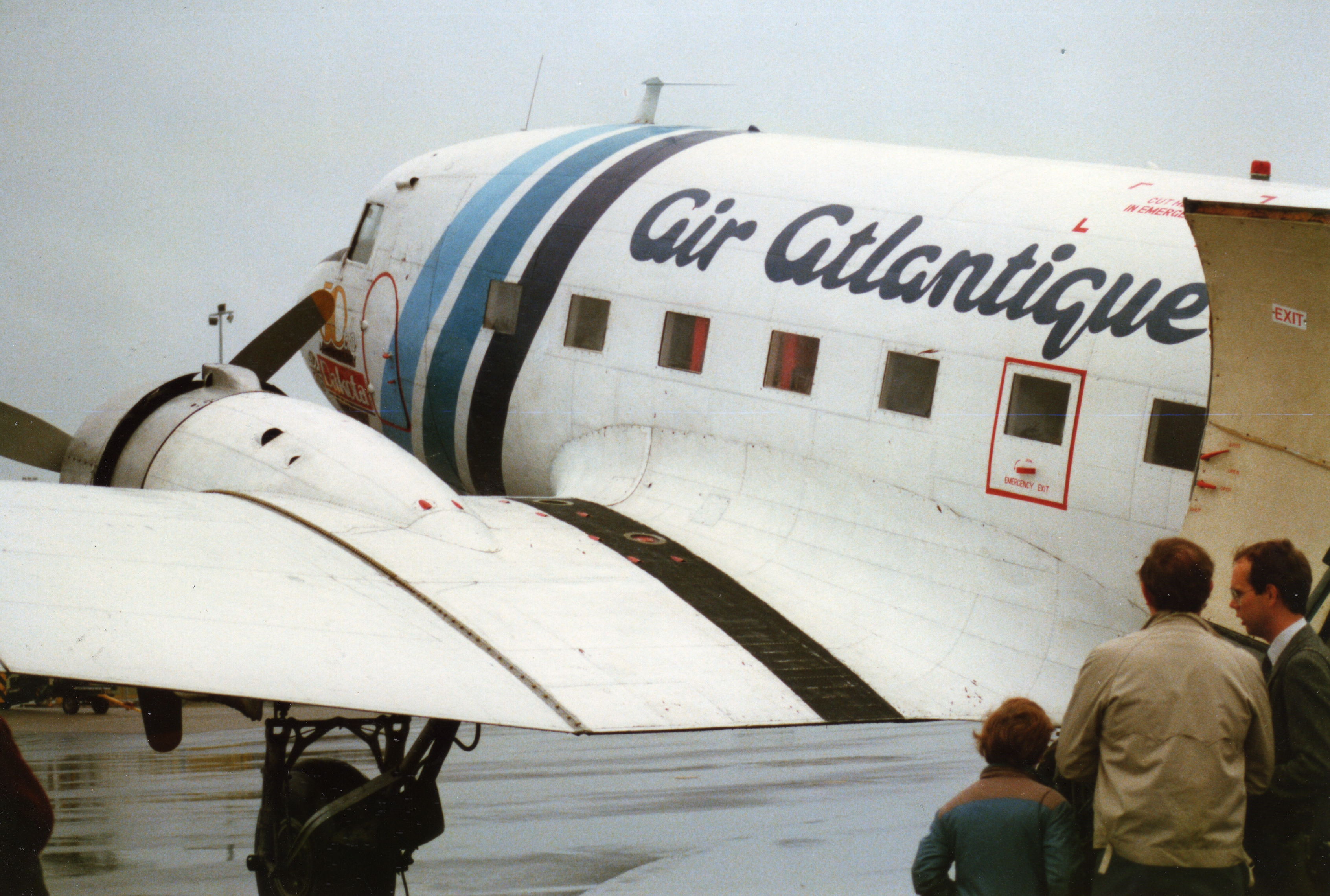 Air Atlantique (G-AMSV) Douglas DC-3 aircraft, Belfast International Airport, Aldergrove, County Antrim, Northern Ireland, September 1986